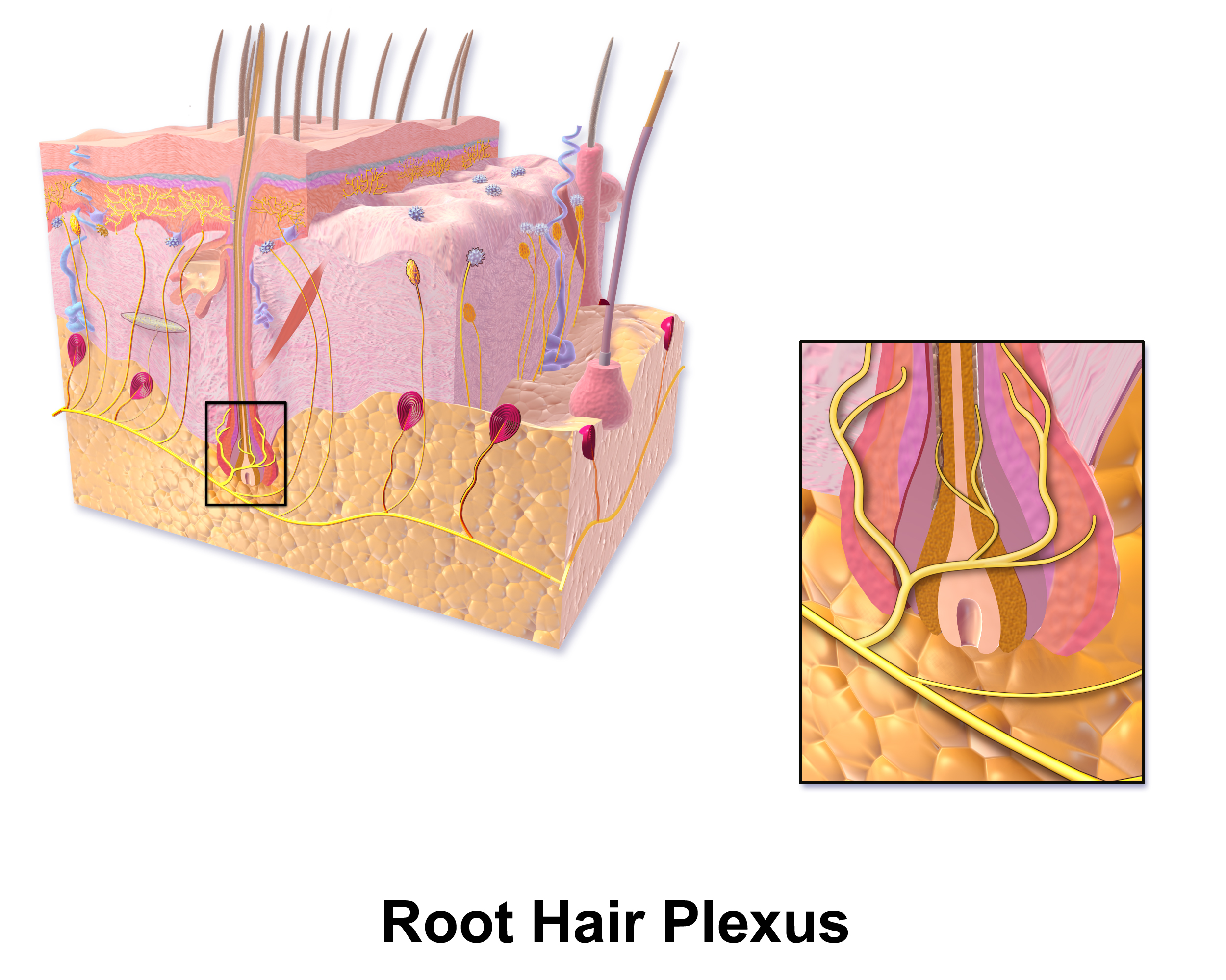 Root Hair Plexus. See a full animation of this medical topic.